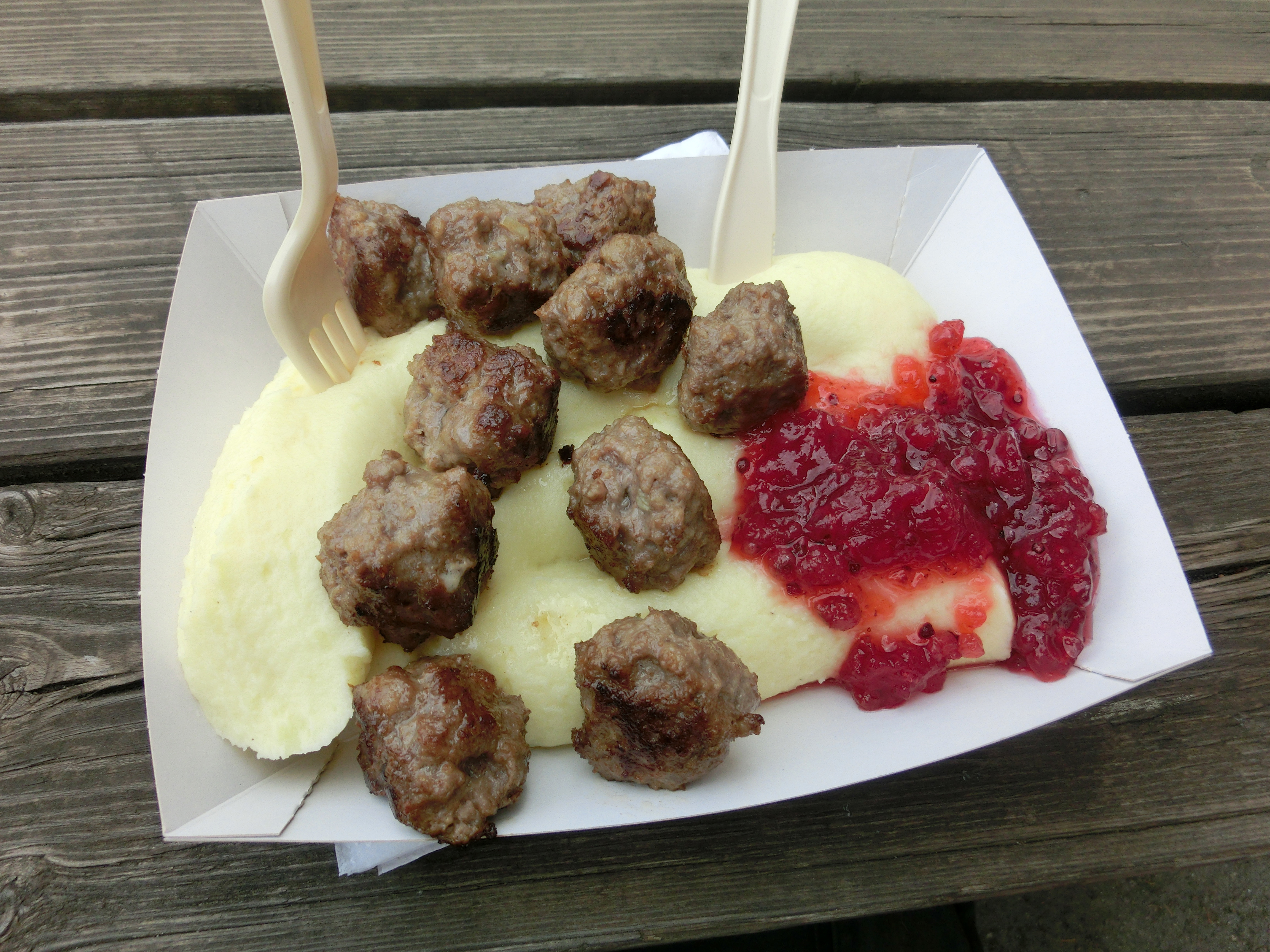 Meatballs and mashed potato with lingonberry jam from a snack bar in Falköping, Västra Götaland County, Sweden.